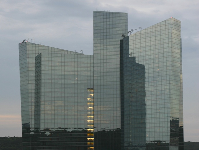 Taken from the top floor of one of Mohegan Sun's strategically placed parking garages. I think this one was for employees only, but they didn't prevent me from parking there to have a look around. 2/IMG_0867